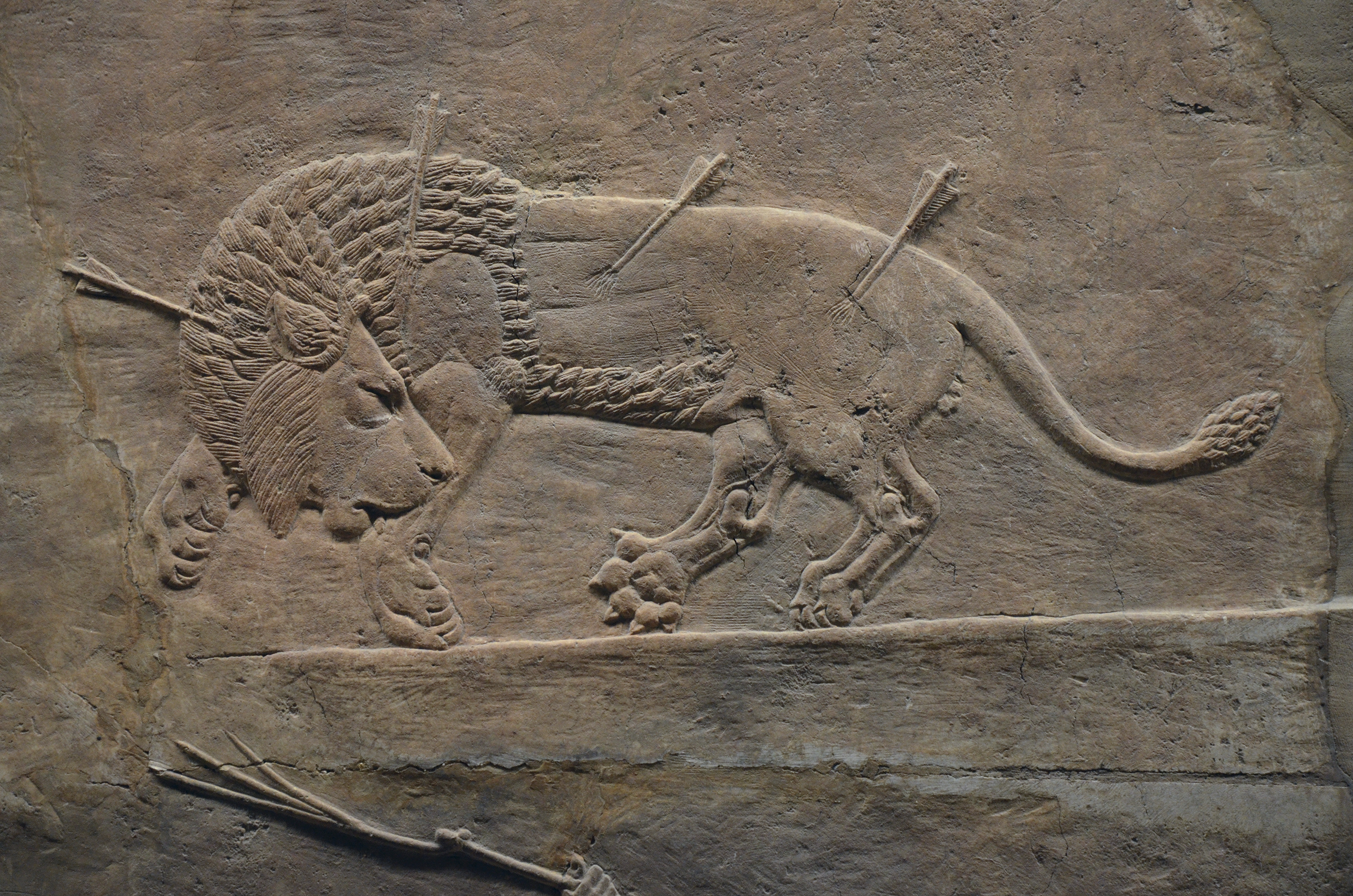 Sculpted reliefs depicting Ashurbanipal, the last great Assyrian king, hunting lions, gypsum hall relief from the North Palace of Nineveh (Irak), c. 645-635 BC, British Museum